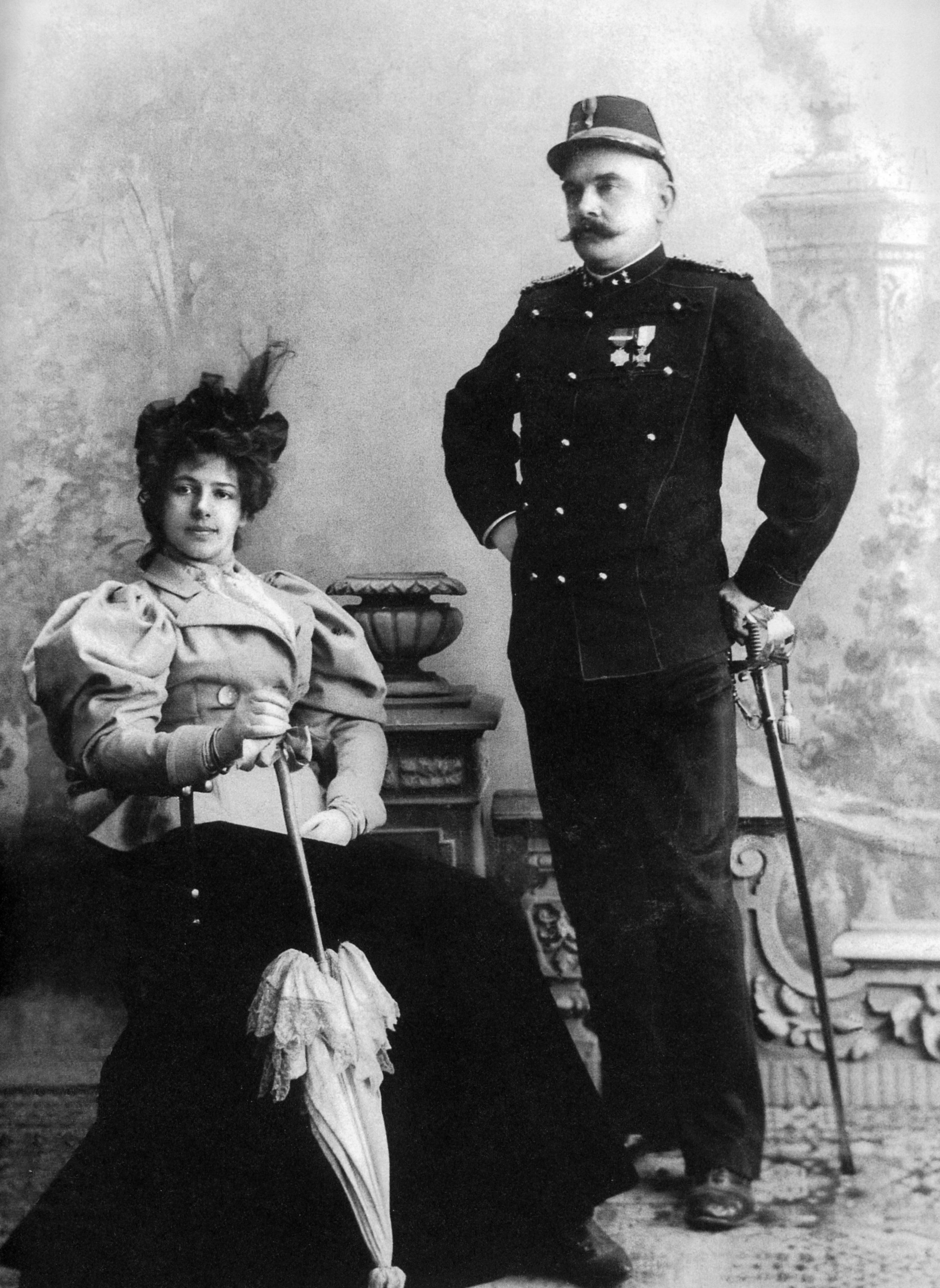 Margaretha Zelle and Rudolph Mac Leod